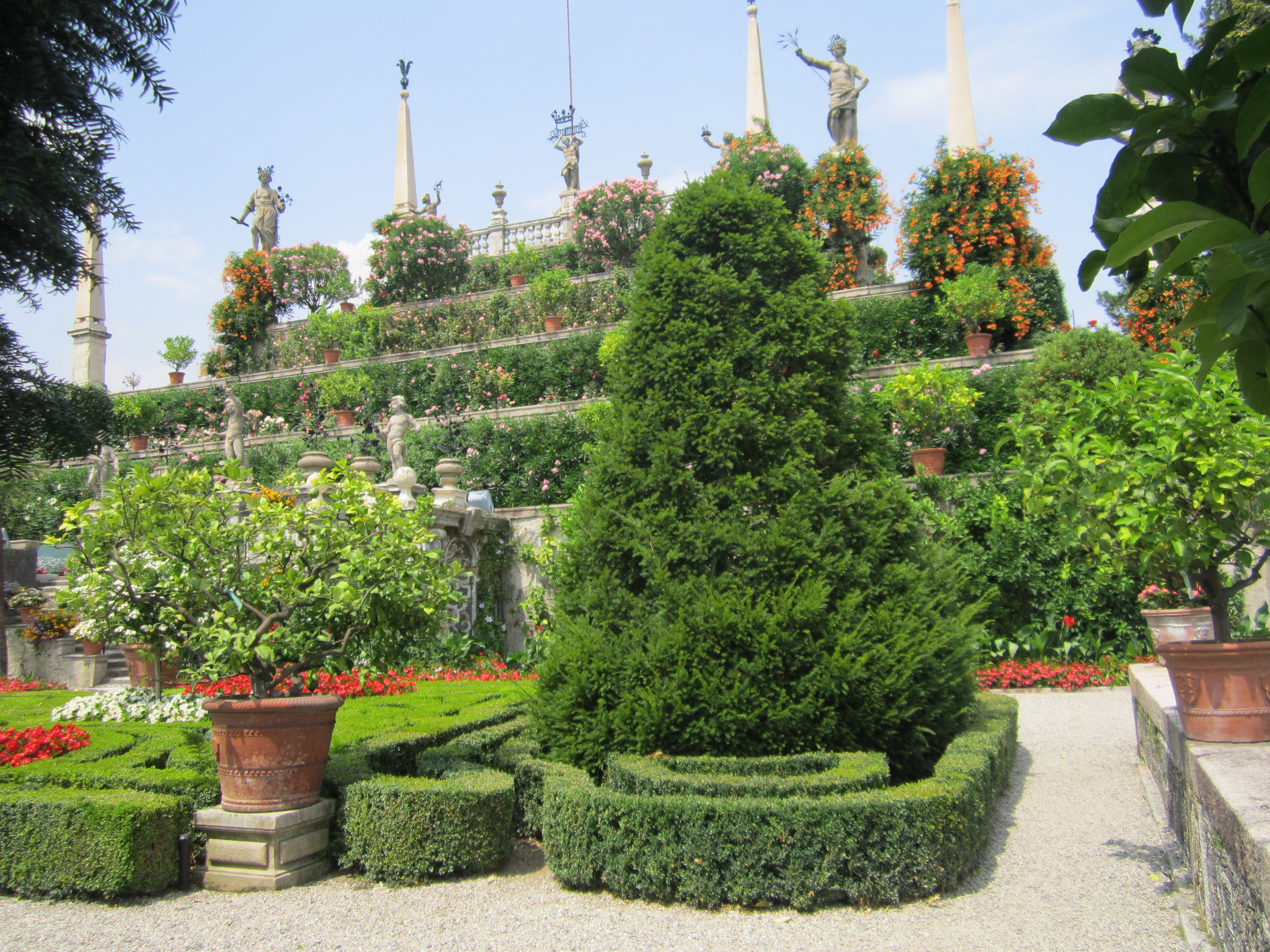 isola bella, lago maggiore, italia